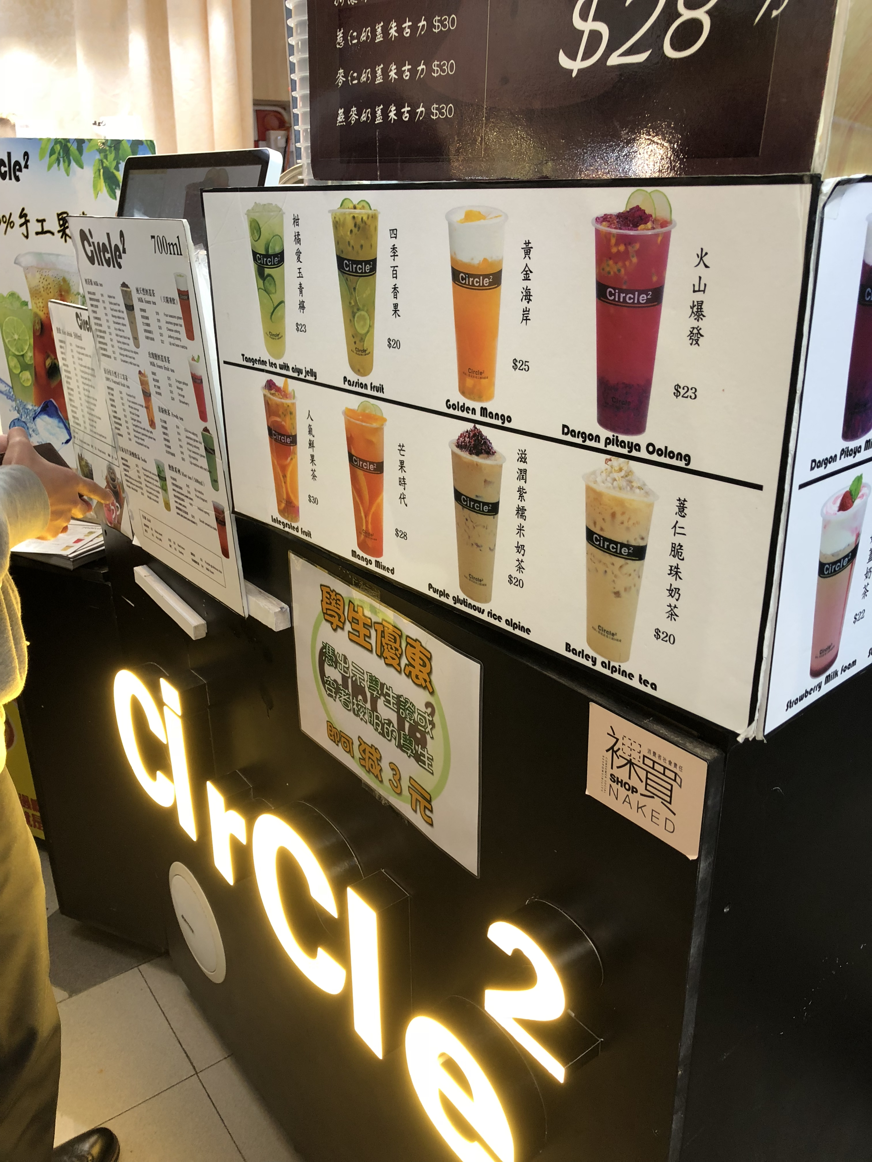 Shop naked drink shop